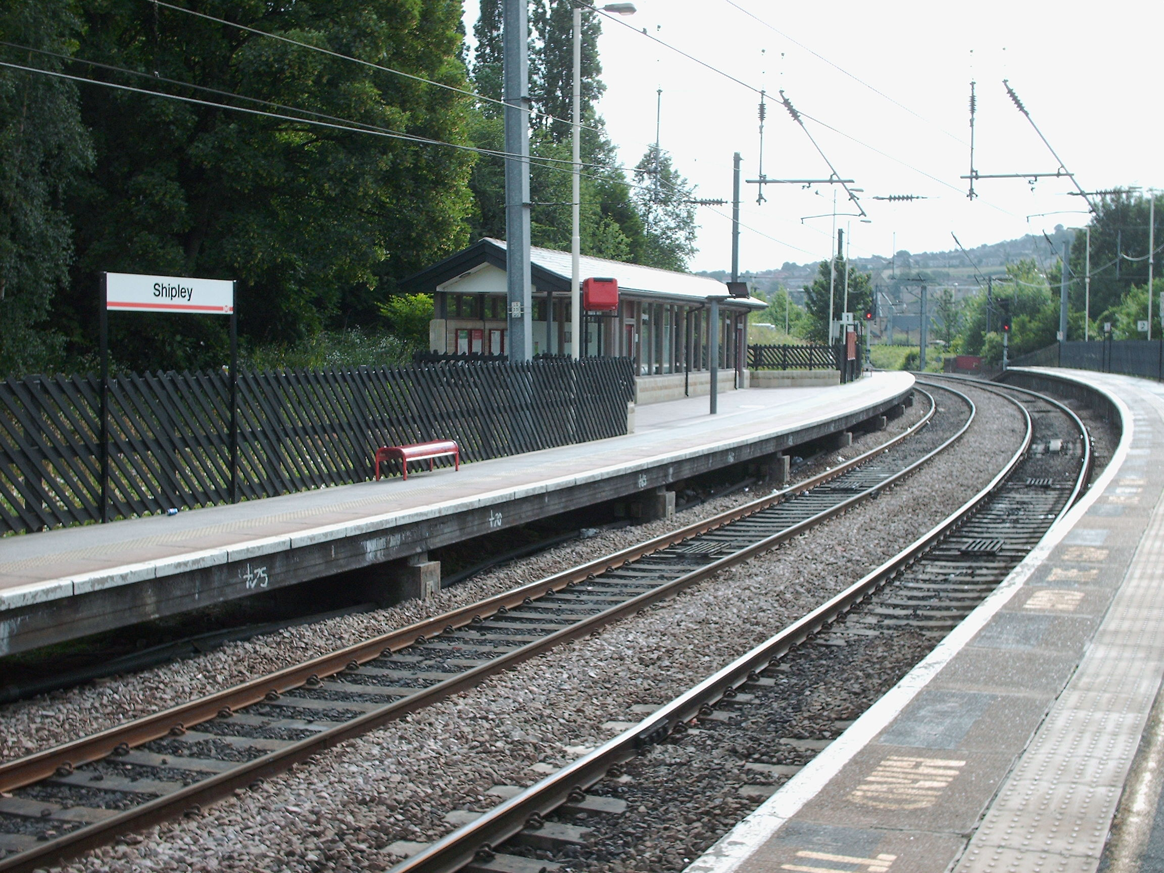 Shipley railway station, West Yorkshire, England. Platform 2.